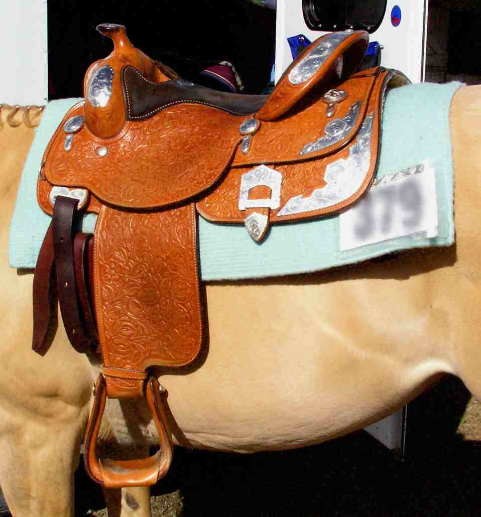 A western saddle with additional silver, suitable for a horse show